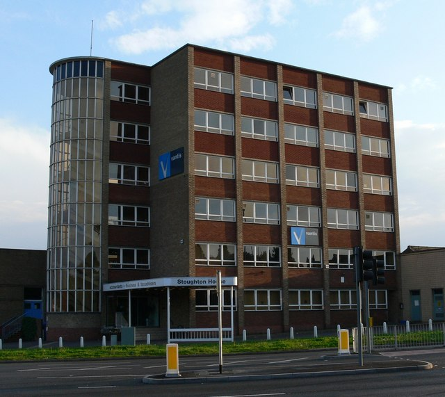 Stoughton House, Oadby. At the corner of the A6 Leicester Road and New Street.